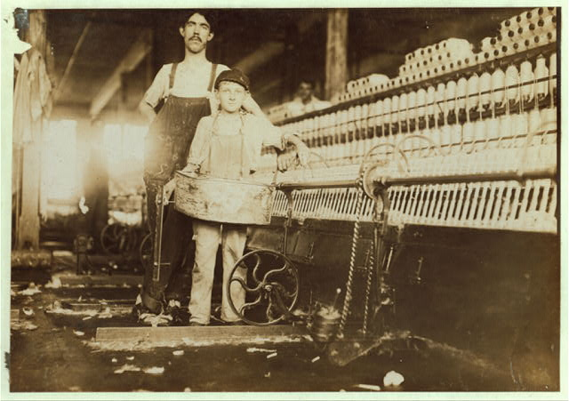 "Tube boy" in the mule room of the Richmond Spinning Mill in Chattanooga, Tennessee, USA.